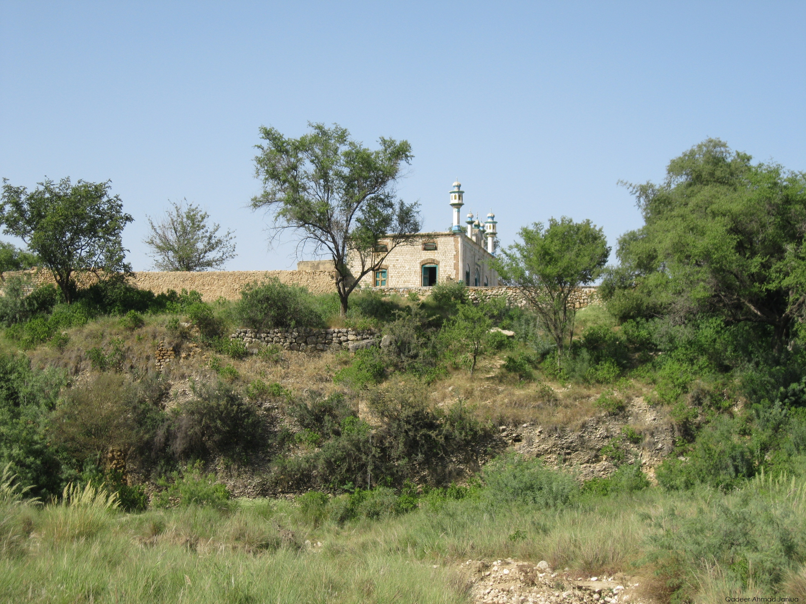 Masjid Khanqah Daep Sharif, Soon Valley